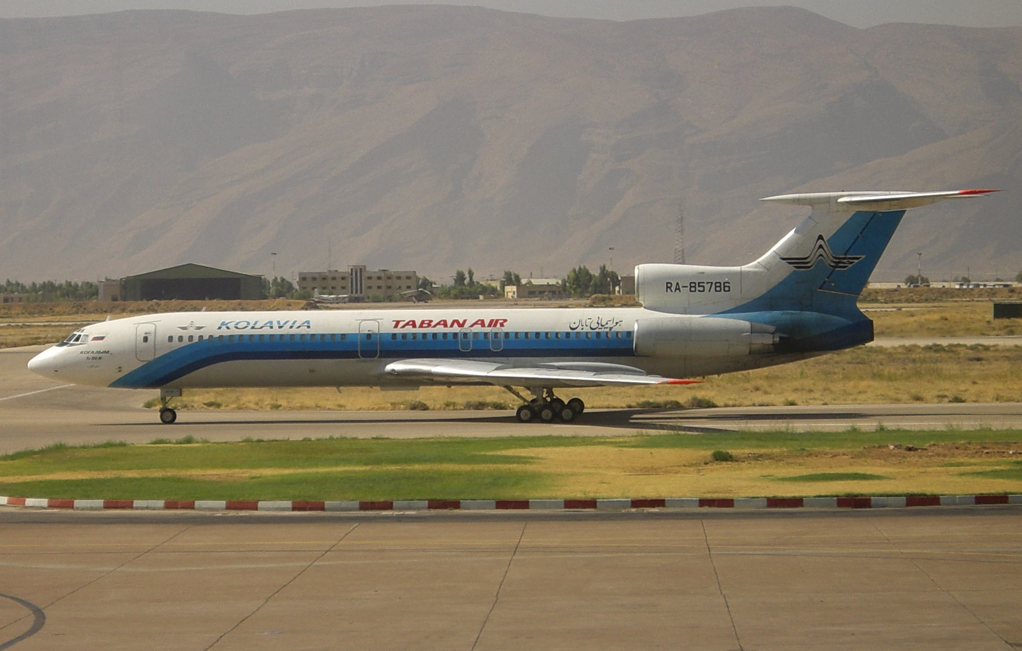 Tabanair TupolevTu154M. Taked Photo at Shiraz Int'l airport.